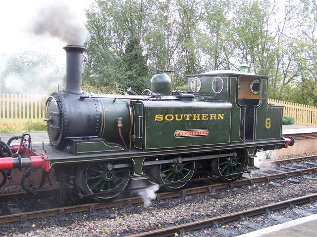 LBSC AiX No. W8 Freshwater at Kingscote station, Bluebell Railway (November 2006)